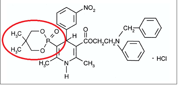 Efonidipine is a dual Calcium Channel Blocker (L & T-type). It has a unique chemical structure. The phosphonate moiety (Figure 12) at the C5 position of the dihydropyridine ring is considered to be important for the characteristic pharmacological profile of the drug.101